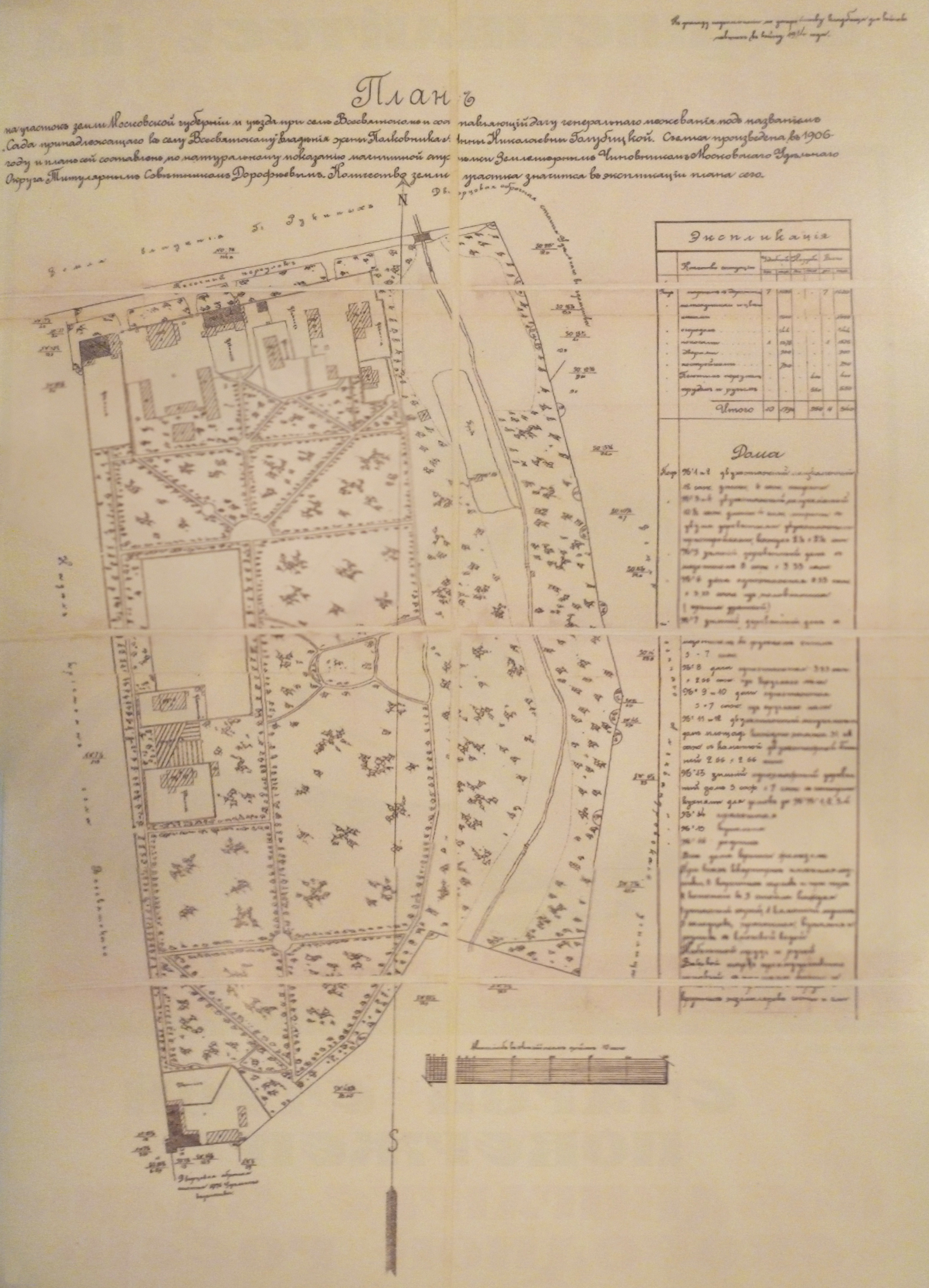 The plan of Vsekhsviatskoe garden